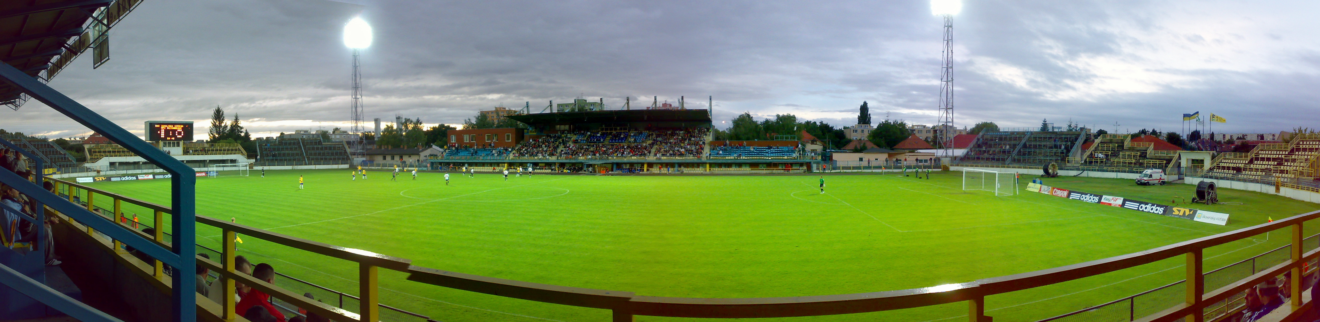 DAC Stadion